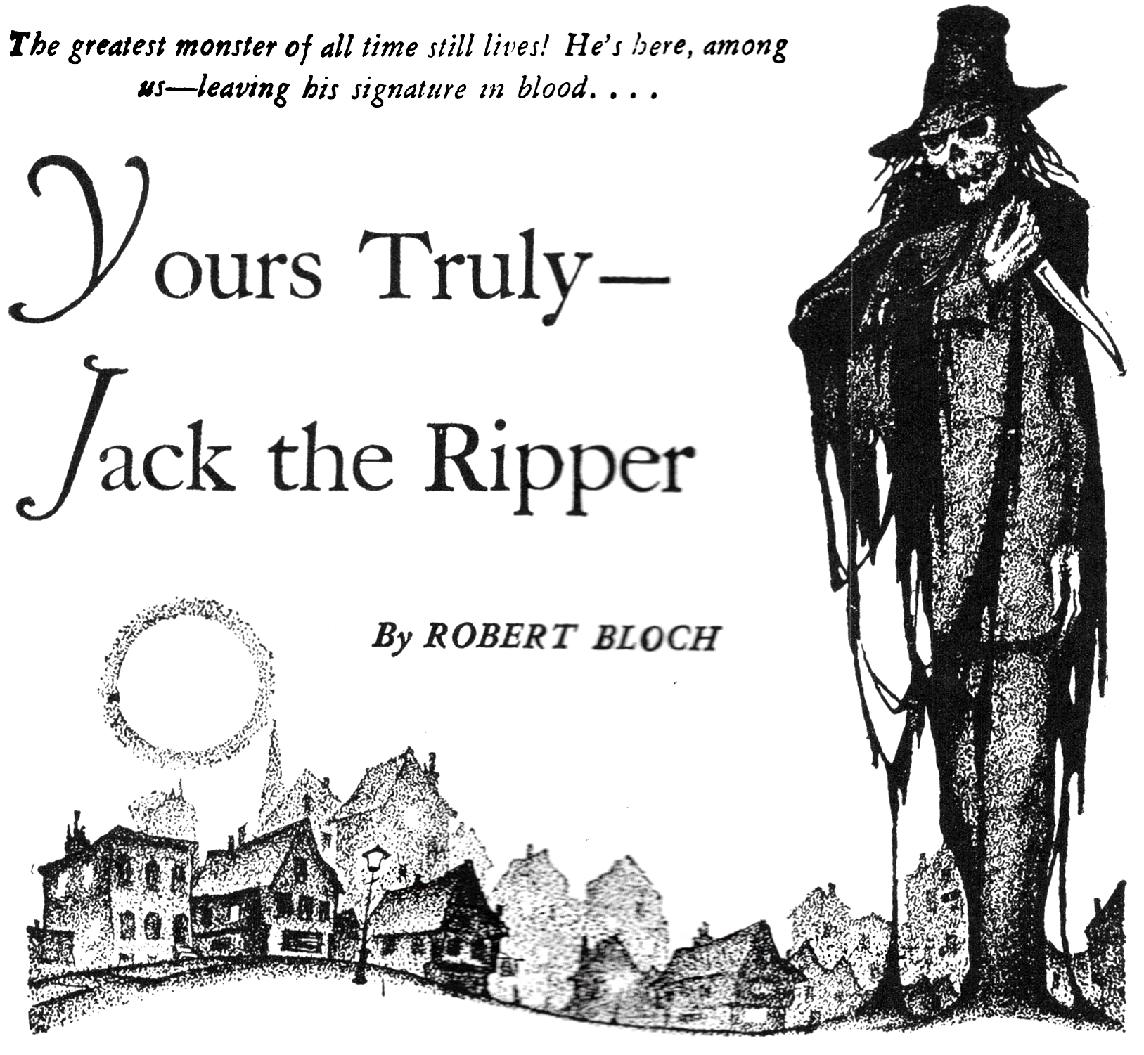 Illustration by Boris Dolgov for Robert Bloch's "Yours Truly, Jack the Ripper" from Weird Tales July 1943